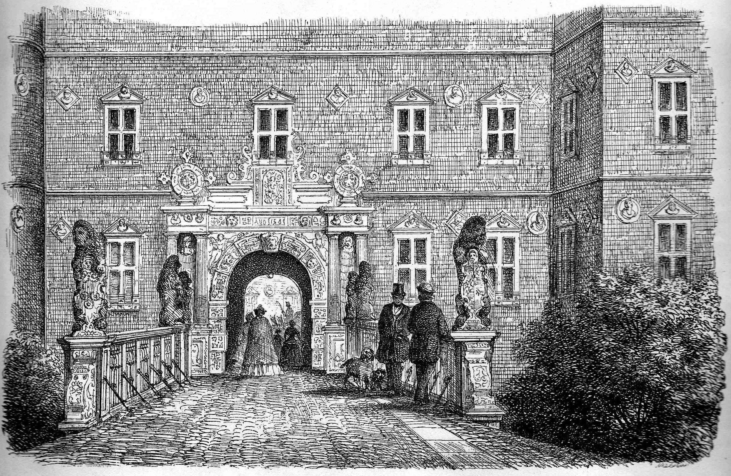 Scanned by myself from the old book in 2007. The book was graciously lent to me by Det Kongelige Garnisonsbibliotek.